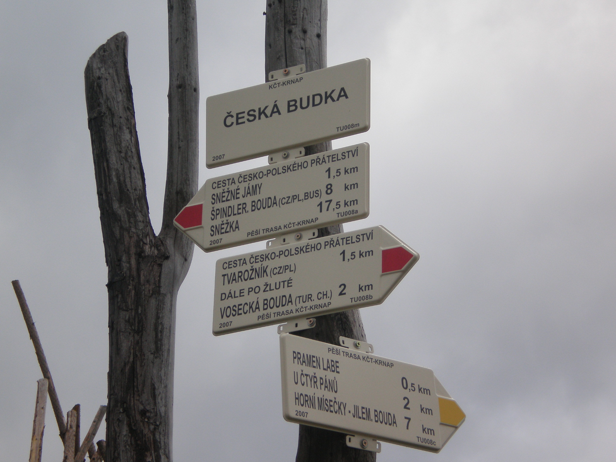 Stop on path of Czech-Polish friendship in Krkonoše mountains (Czech-Polish border)